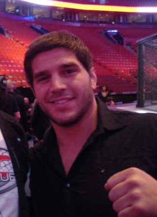 Photo of MMA fighter Patrick Côté, taken by Stryder1975, at UFC 83 at the Bell center in Montreal Canada (2008-04-18)